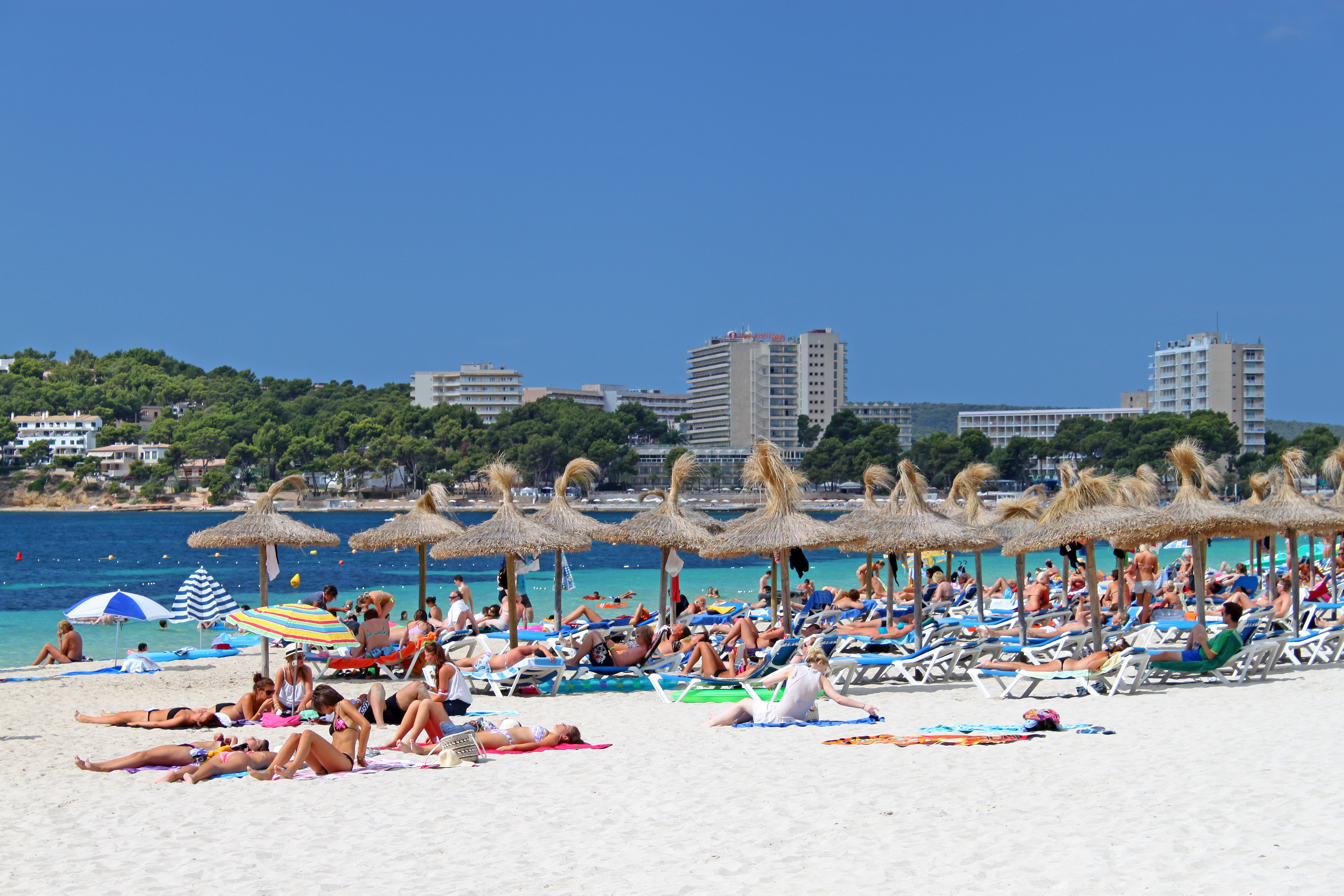 Magaluf, Mallorca, 2010